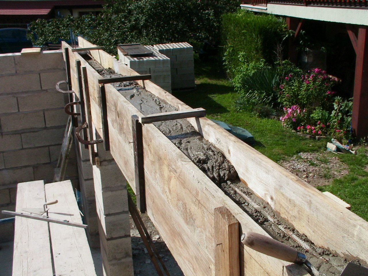 Pouring a concrete lintel in a traditional timber formwork above a garage door. Location: Champagney, Haute-Saône, France.